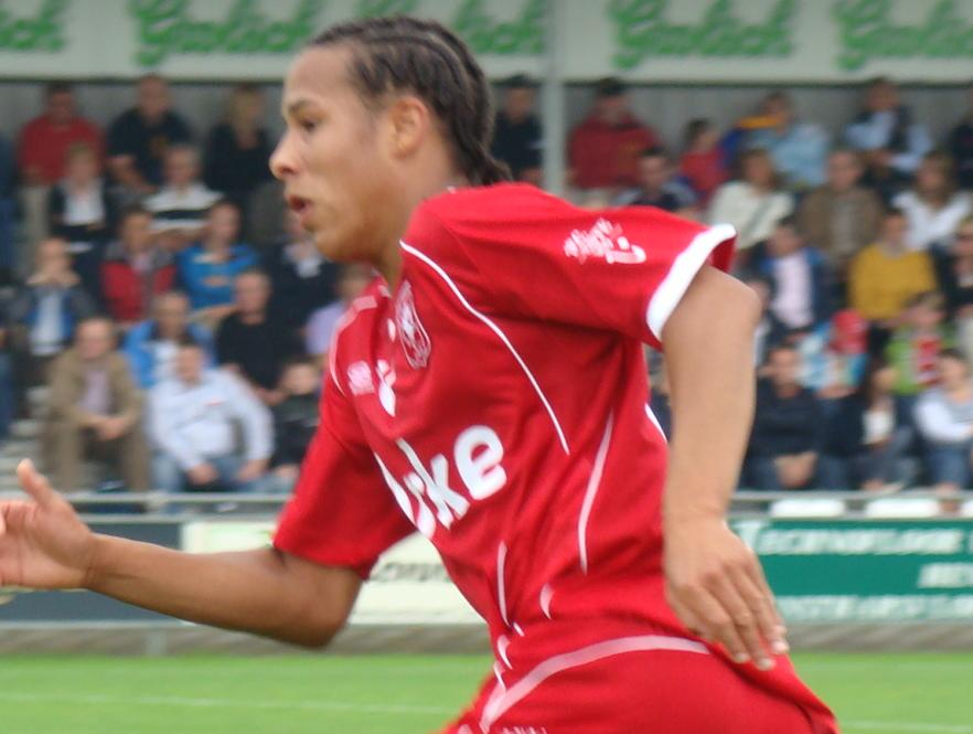 Image of the FC Twente-player Tjaronn Chery